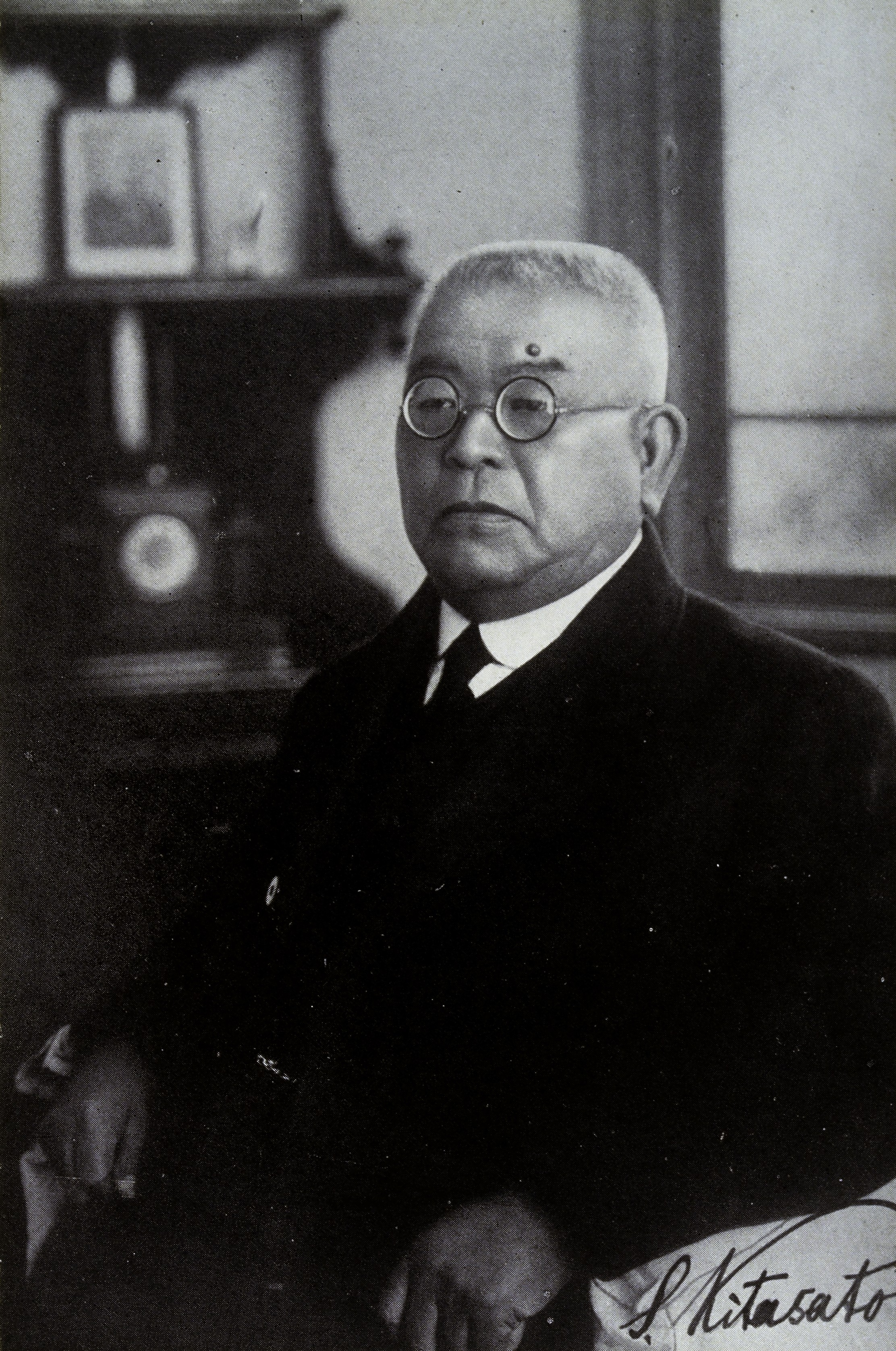 Shibasaburo Kitasato. Photograph. Iconographic Collections Keywords: portrait photographs